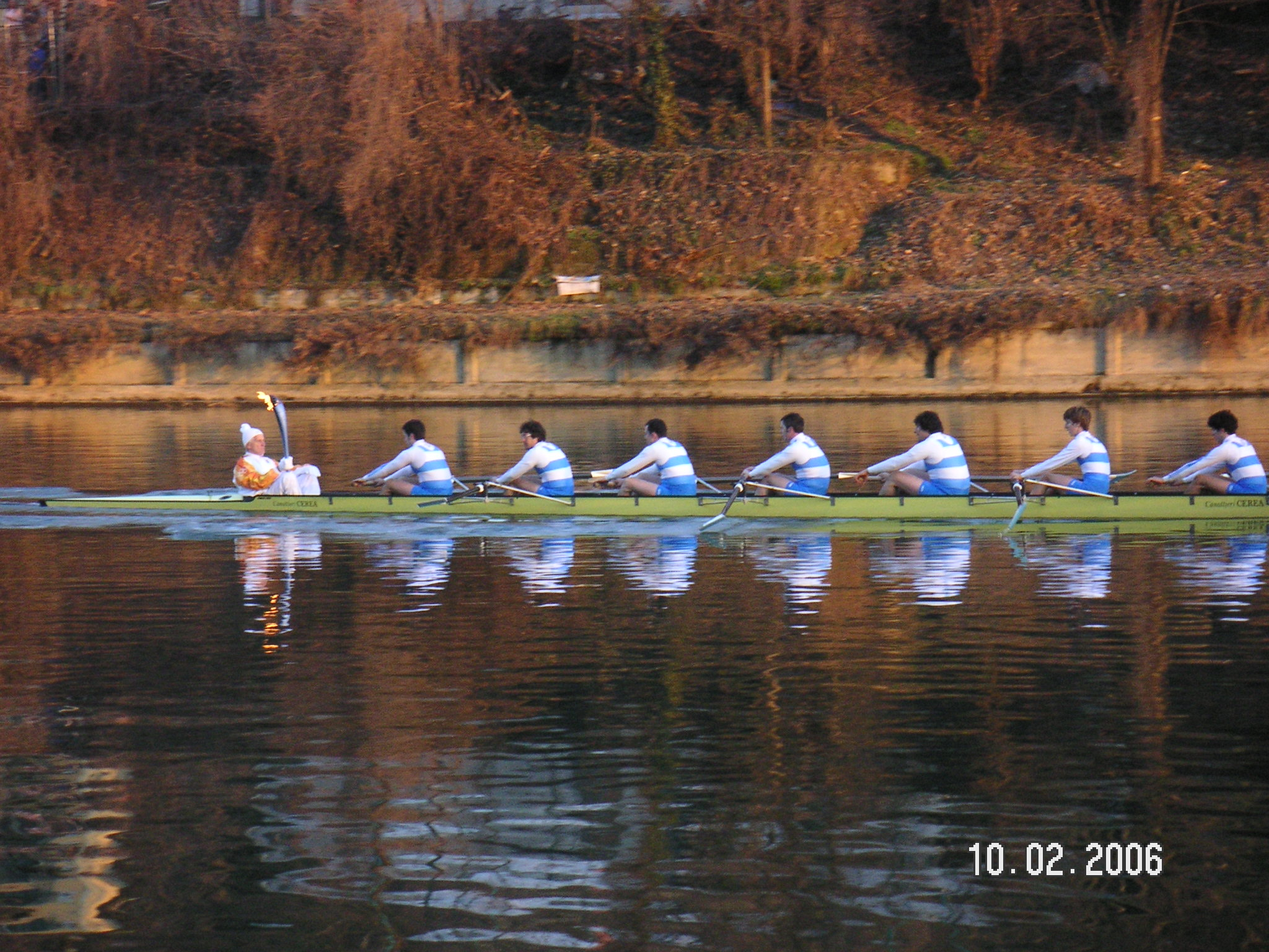 The 2006 Winter Olympics torch on a rowing boat, river Po, Turin, february 10, 2006. Author: Betto